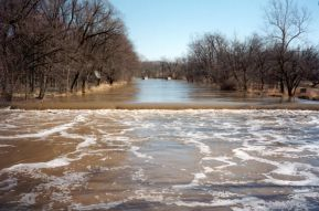 Northern Eel River at Collamer Dam in Whitley County, January 1998. This image is resized from the original, which was found at [1] .